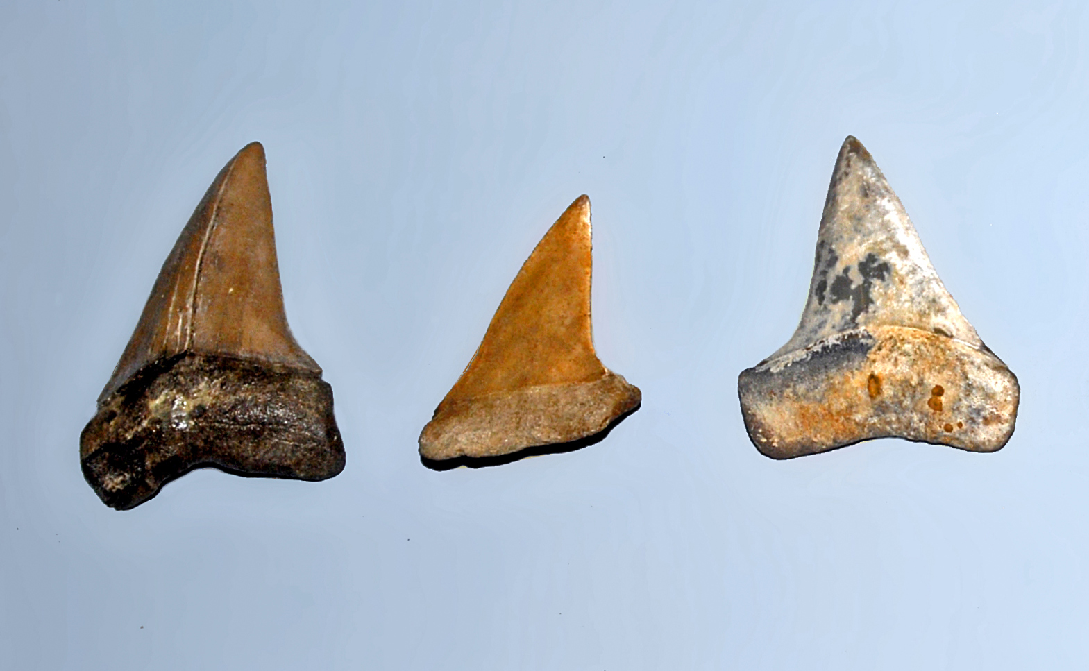 Fossil teeth of Isurus hastalis, on display at the Museo Paleontologico Giulio Maini, Ovada